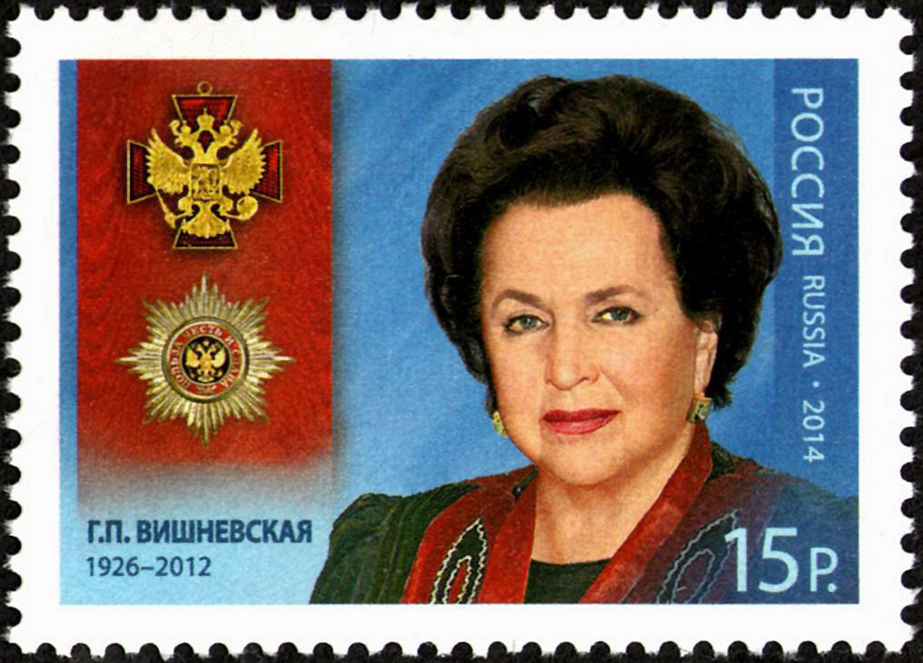 Recipients of the Order For Merit to the Fatherland (the ongoing stamp series). Full Cavalier of the Order For Merit to the Fatherland Galina Vishnevskaya (1926–2012), a Russian opera singer, theater and film actress, a teacher of art. There depicted the cross and the star of the Order For Merit to the Fatherland 1st class on the left. The stamp of Russia, 15.00 Rubles, 24 October 2014, PTC Marka Catalogue No 1884. Coated paper. Offset printing. Perforation: comb 12½×12. Size of the stamp: 42×30 mm. Print run: 462,000.